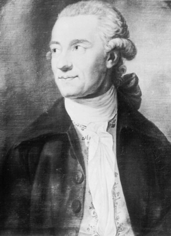 Leopold Friedrich Günther von Goeckingk (1748-1828), German poet